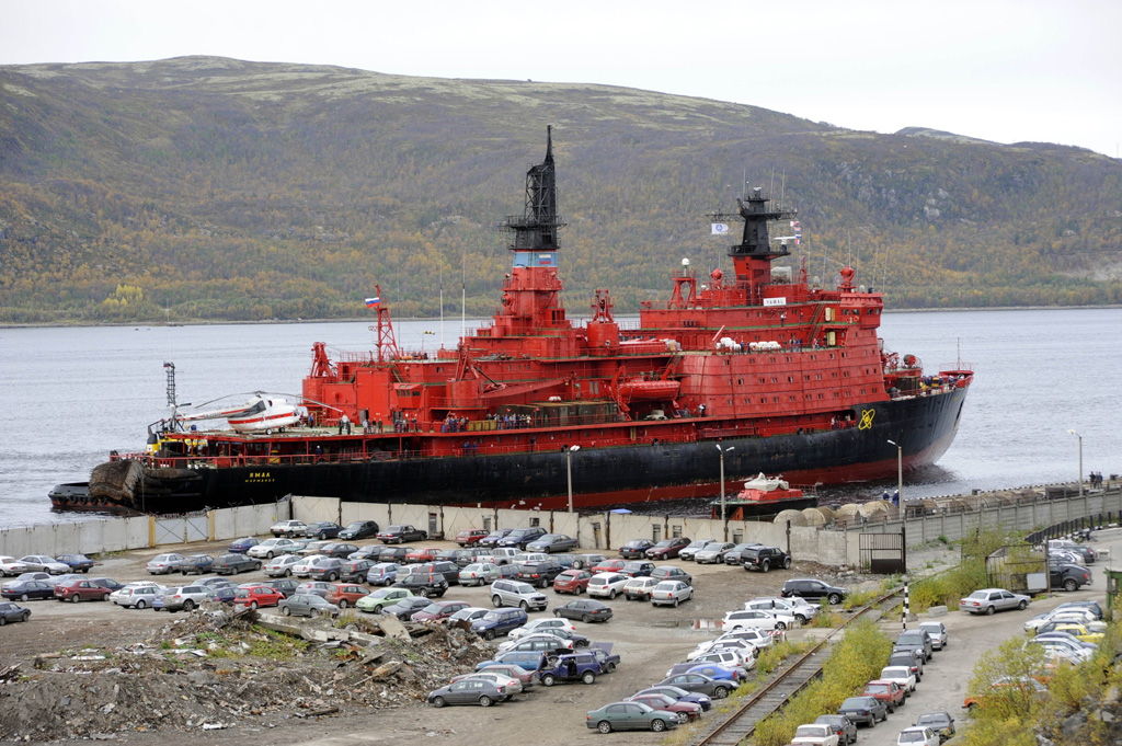 “Nuclear ice-breaker Yamal arrives in Murmansk”. The nuclear ice-breaker Yamal, with the scientists of the SP-36 Russian floating station on board, arrived in Murmansk.